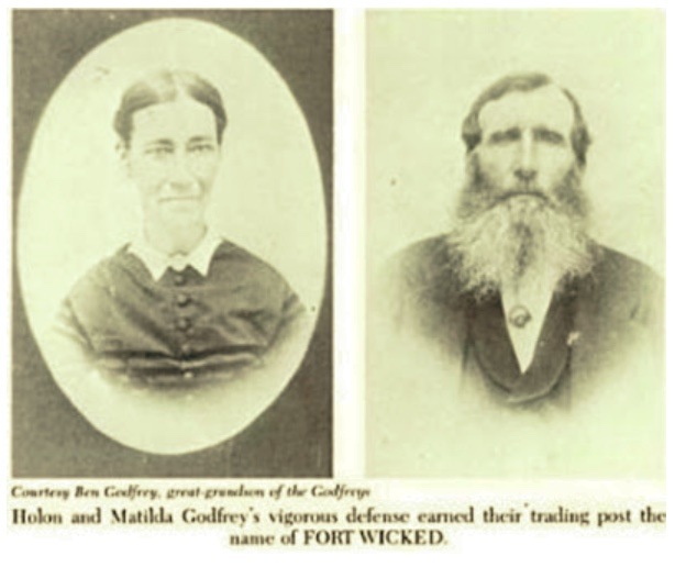 Matilda and Holon Godfrey, who died 1879 and 1899, respectively. They ran the Godfrey Ranch, renamed Fort Wicked, after an attack by Lakota and Cheyenne warriors in 1865 in retribution for the Sandy Creek Massacre. Holon Godfrey was named "Old Wicked" for his ability to withstand the attack. The ranch / fort was located in Logan County, Colorado, near the town of Merino.